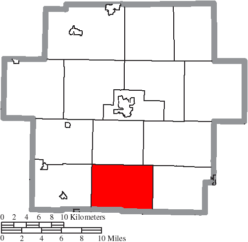 Map of the municipal and township boundaries of Carroll County, Ohio, United States, as of the 2000 census, with the location of Perry Township highlighted. Township borders are shown only in unincorporated areas in order to differentiate incorporated and unincorporated areas more clearly.